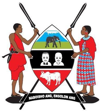 Coat of Arms of Kajiado CountyKiswahili: Nembo ya Serikali ya Kaunti ya Kajiado